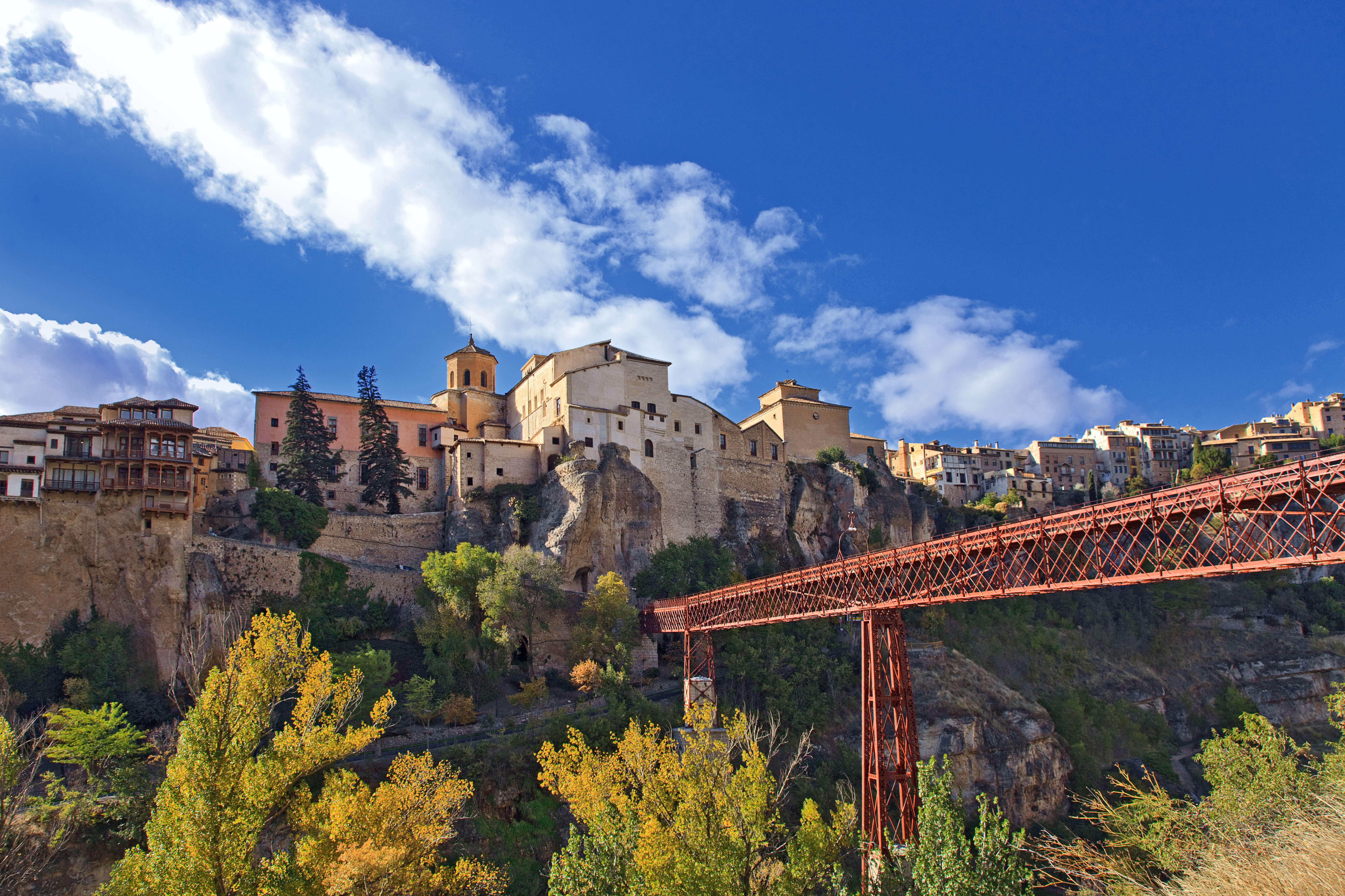 Cuenca. ST. Paul's Bridge. Castilla - La Mancha. Spain